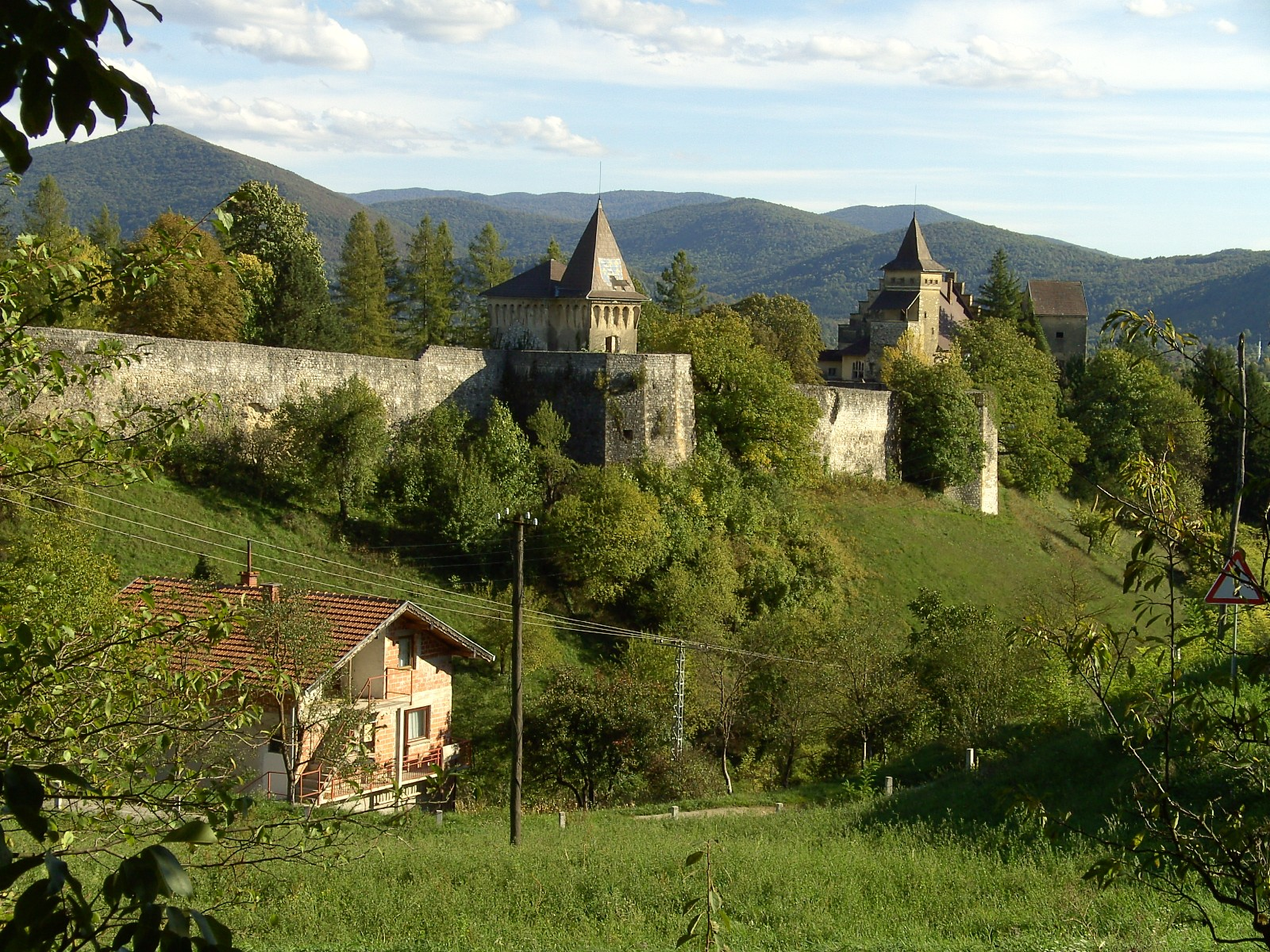 Ostrožac castle near Cazin, BiH